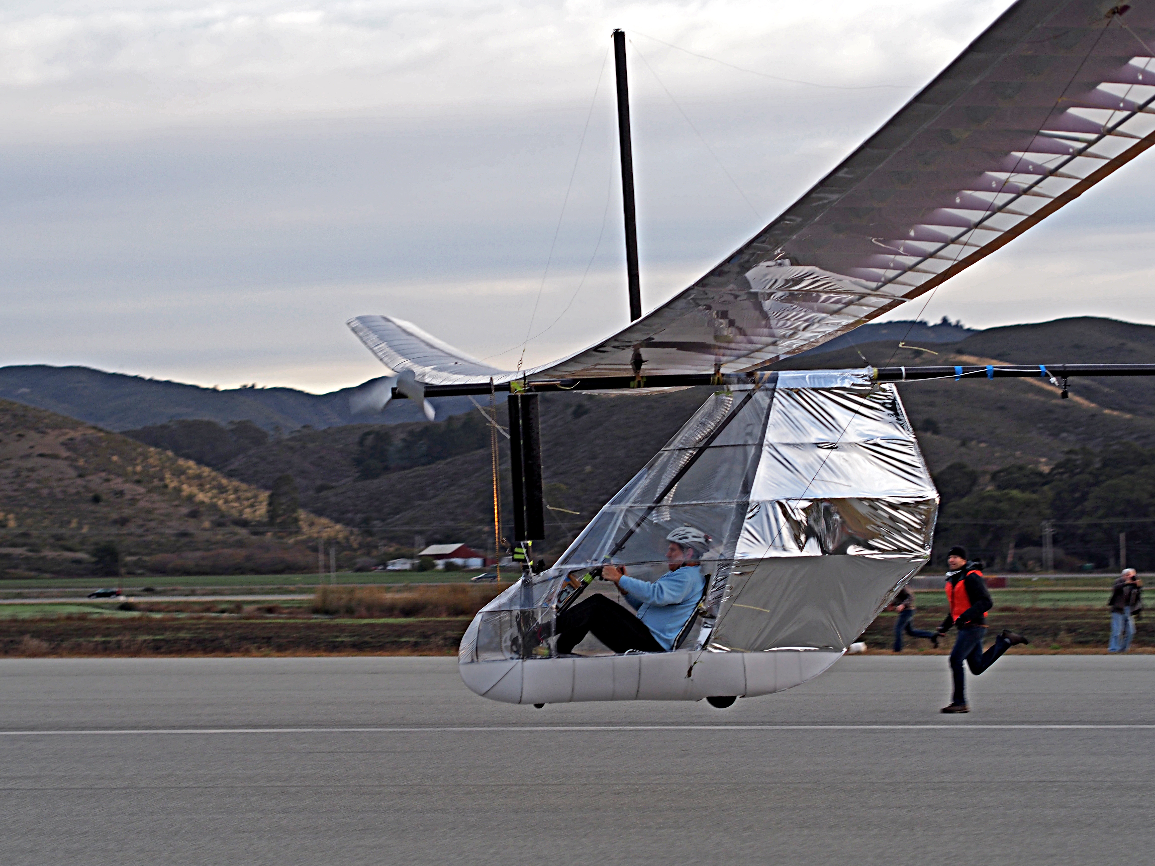 The first flight of the DaSH PA human powered airplane. Piloted by Alec Proudfoot. Flight the morning of 12/5/2015, Half Moon Bay airport (KHAF). Photo taken shortly before landing. Pilot Alec Prodfoot, chase runner and spectators visible.